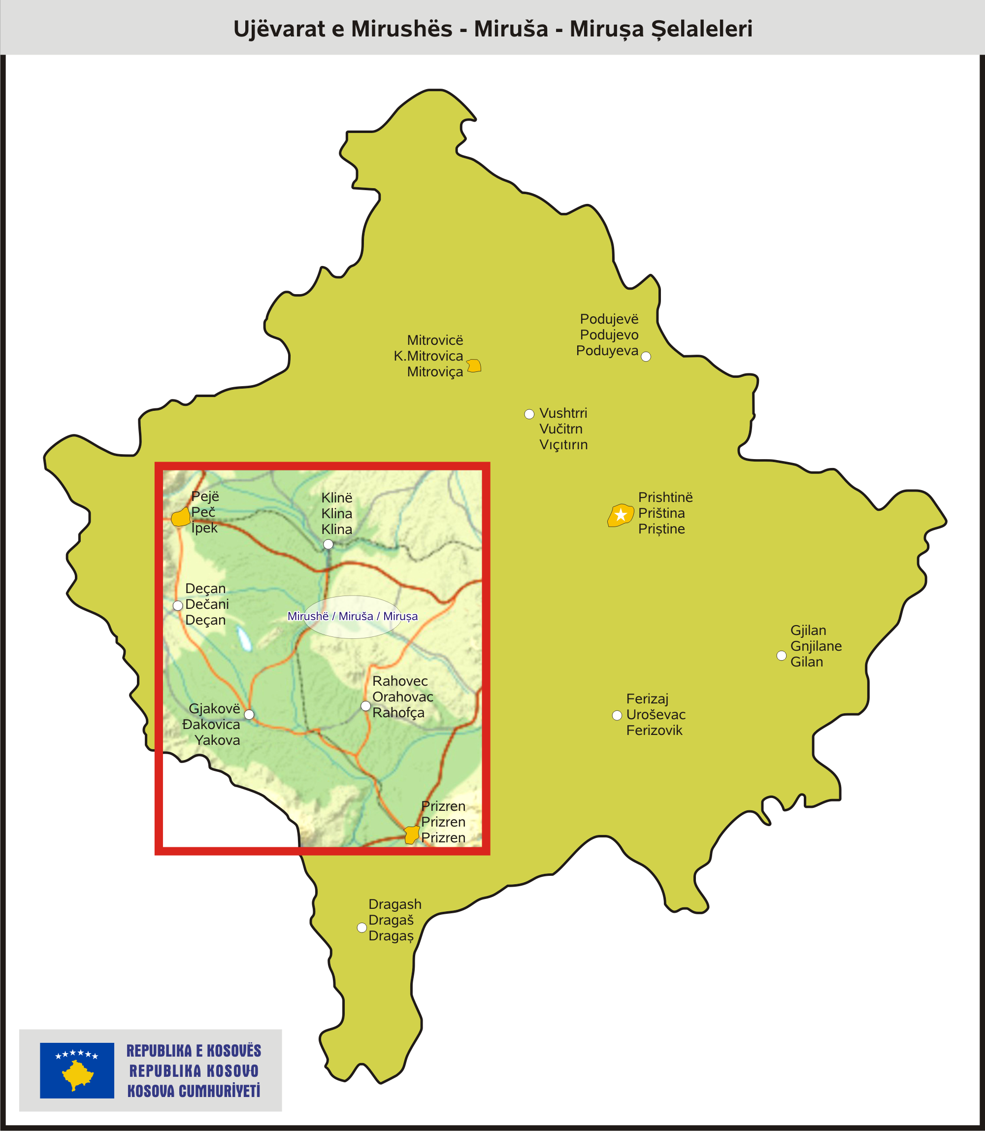 Mirusa Waterfalls: This map is about Mirusa Waterfalls's zone in Kosova.